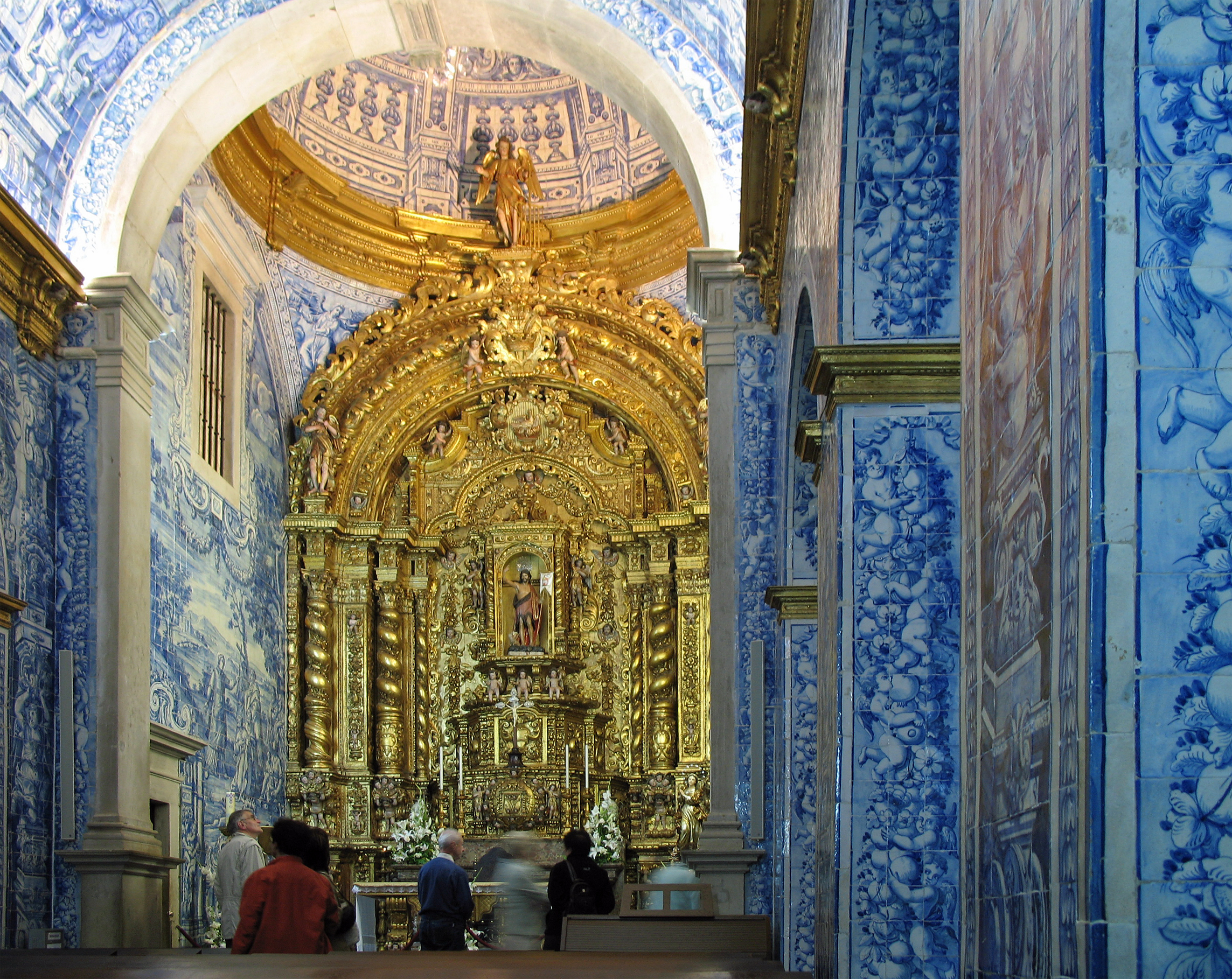 Almancil (Portugal): Saint Lawrence church (Igreja de São Lourenço) - interior